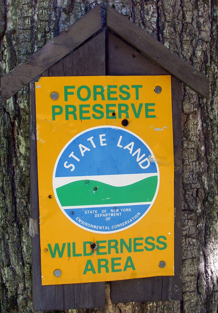 Photographed by Daniel Case 2006-08-12 near the Roaring Kill trailhead in the Catskills.